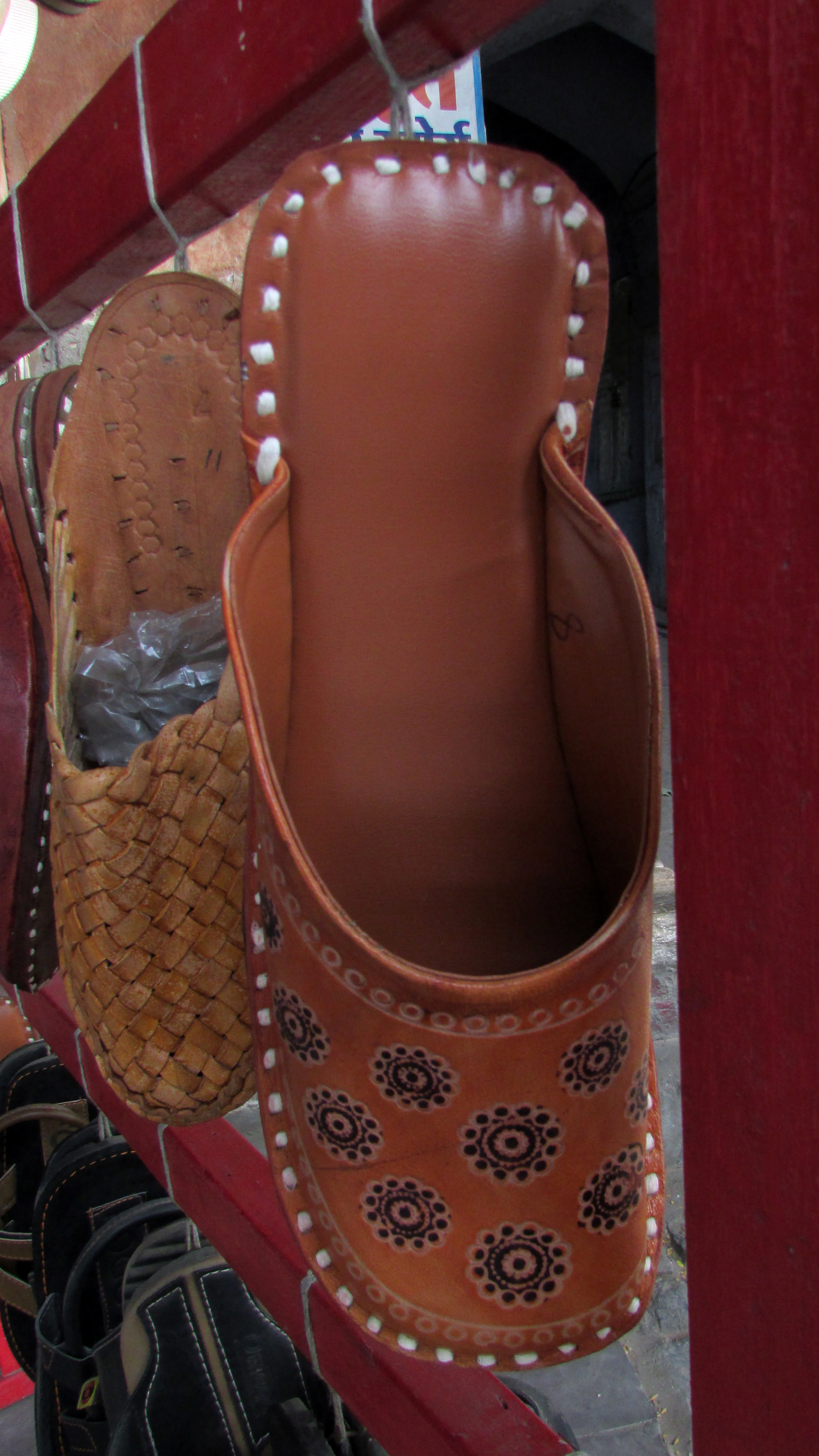 Rajasthani style Leather Jooti,local artwork Jaipur India